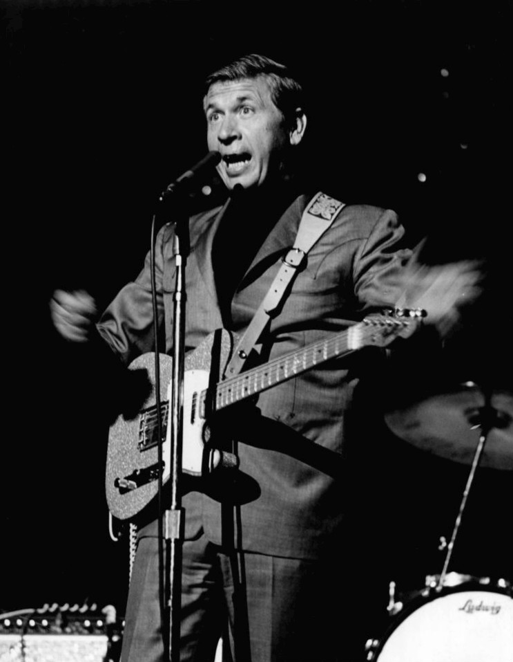 Photo of Buck Owens performing at the Weshington State Fair in 1968.